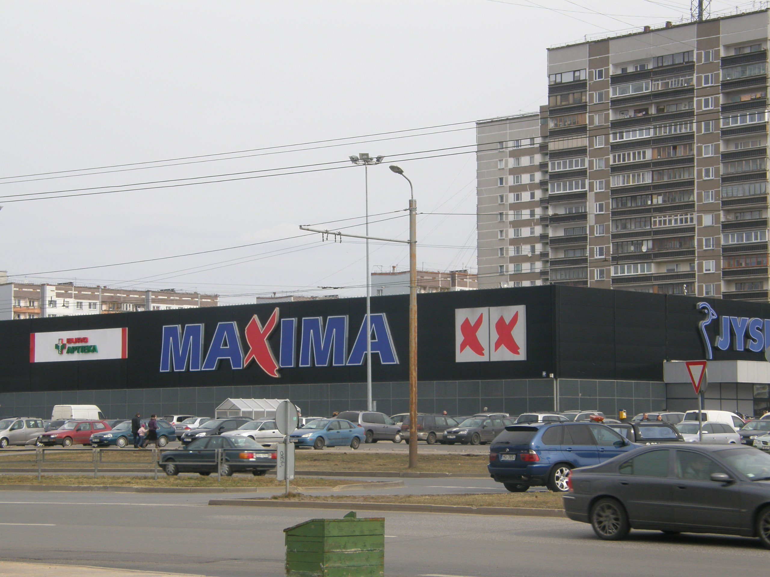 Maxima store in Riga, Latvia